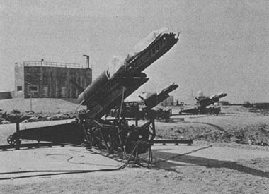 "A Nike-Apaches rocket ready for launch from Fort Churchill, Manitoba, Canada."